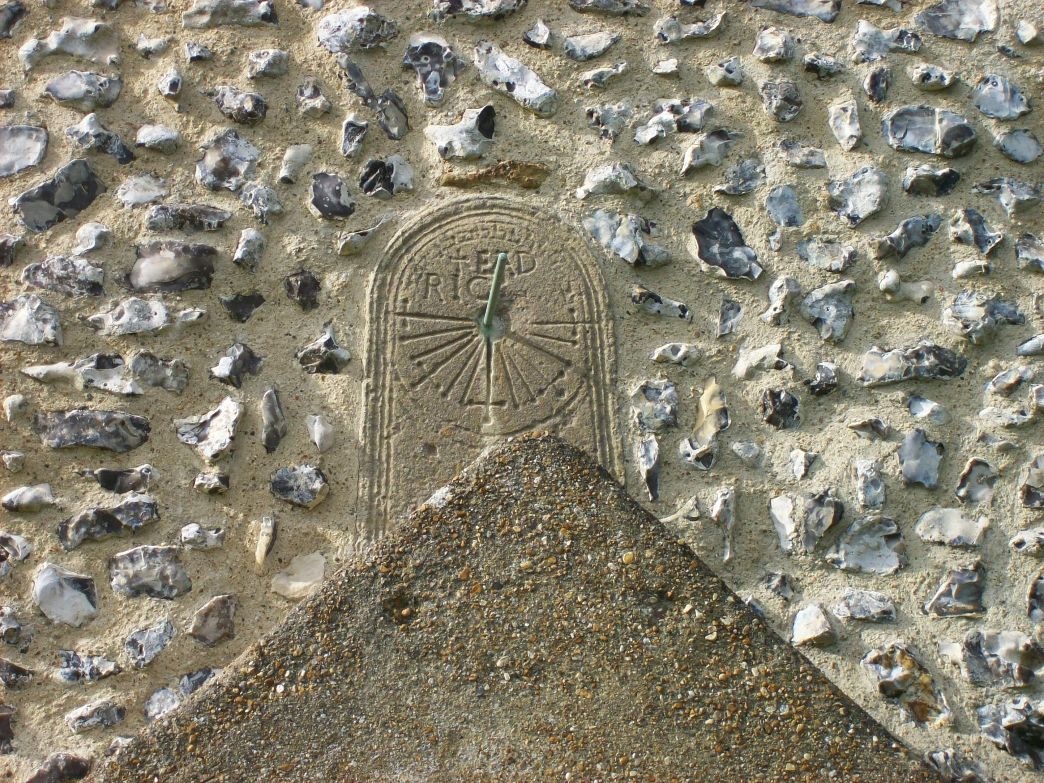 Mass dial at St Andrew's parish church, Bishopstone, East Sussex